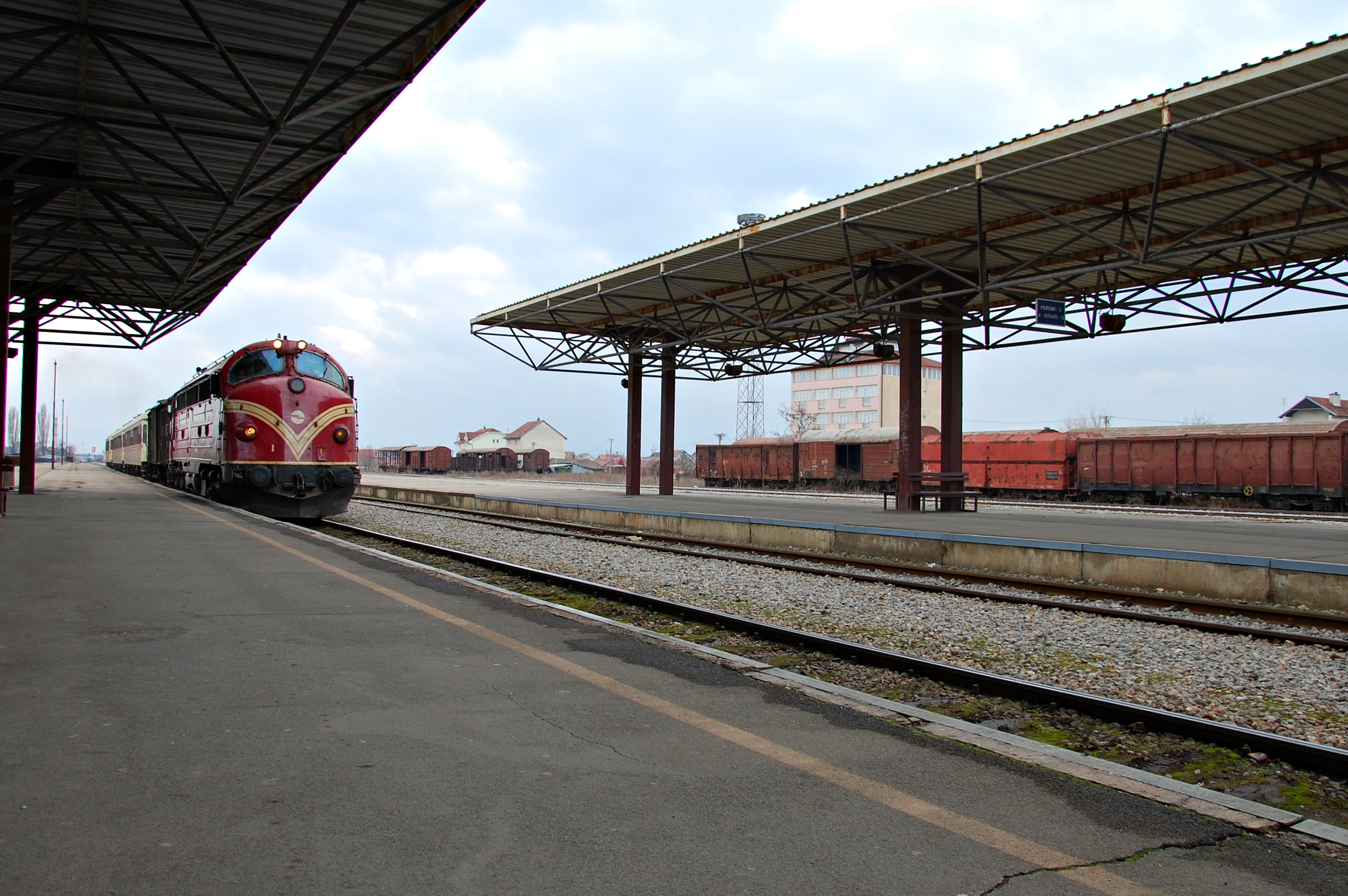 Fushë Kosova